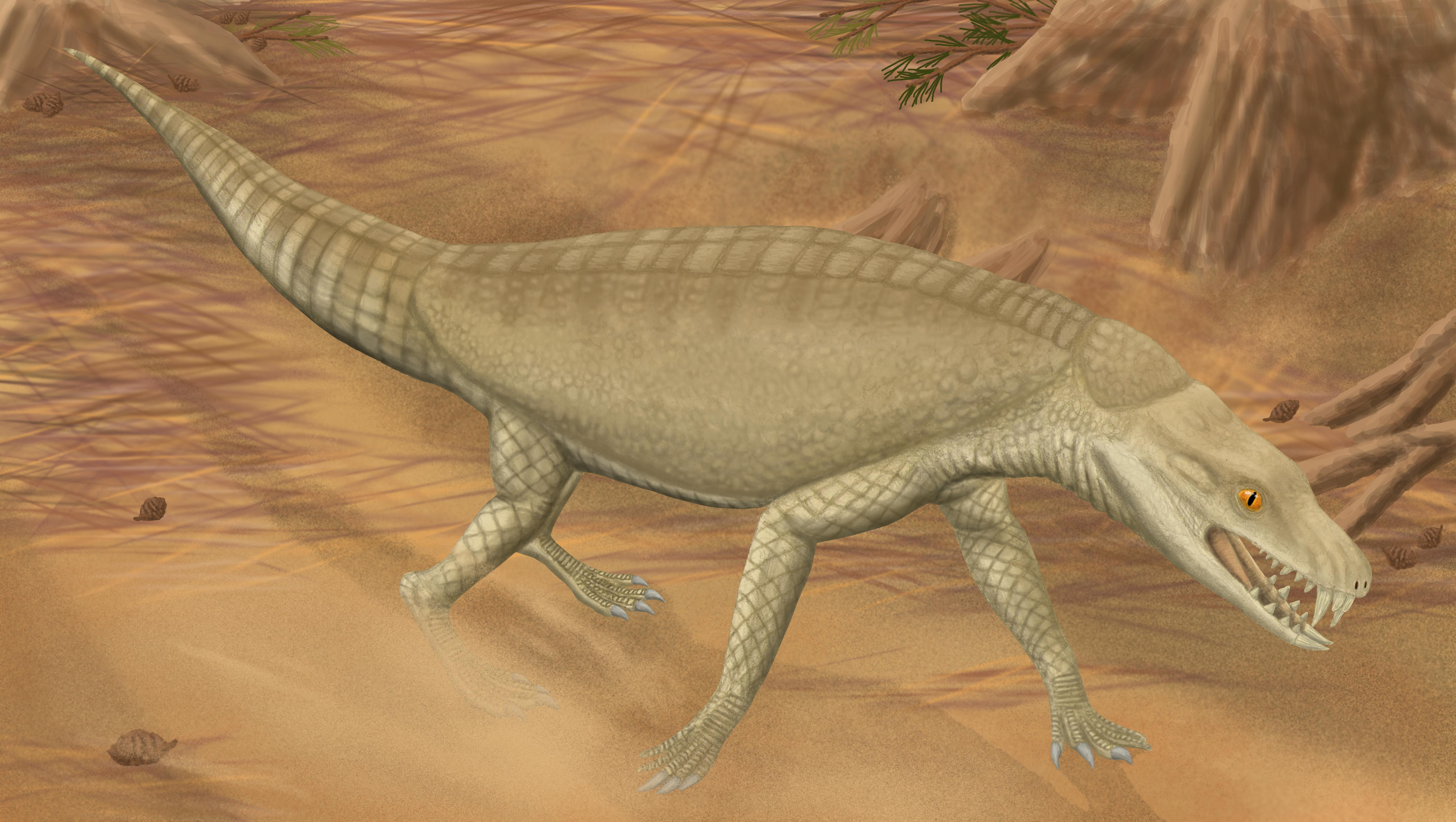 Life restoration of Armadillosuchus arrudai. Based on figures 5 and 6 of "An armadillo-like sphagesaurid crocodyliform from the Late Cretaceous of Brazil" by Thiago S. Marinho and Ismar S. Carvalho Journal of South American Earth Sciences 27 (1): 36–41 as well as photographs of the mounted skeleton in a museum in Rio de Janeiro, which can be found here and here